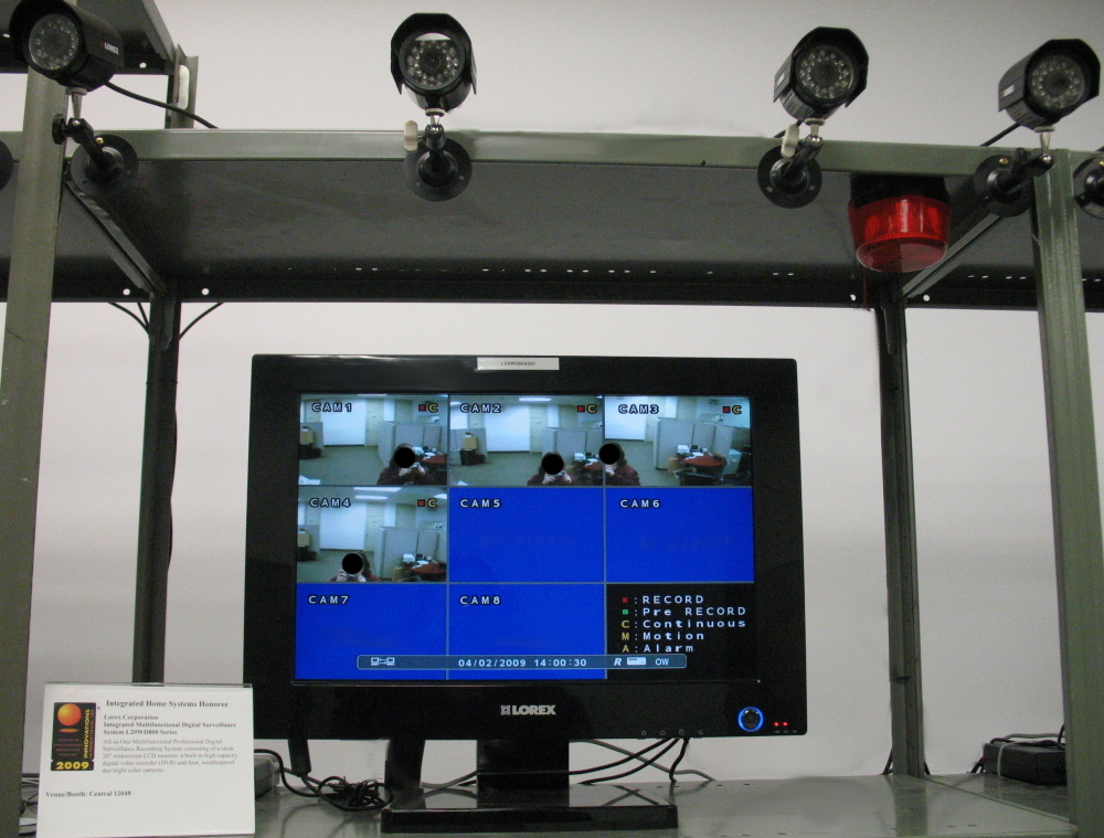 An integrated surveillance system on display. The display next to the system reads, roughly: "Integrated Home Systems Honoree Lorex Corporation Integrated Multifunctional Digital Surveillance Systems 8.20WD5600 Series [the smaller text is barely legible] Venue/Booth: Central 12848" It also appears to have won an innovation award of some sort in 2009.